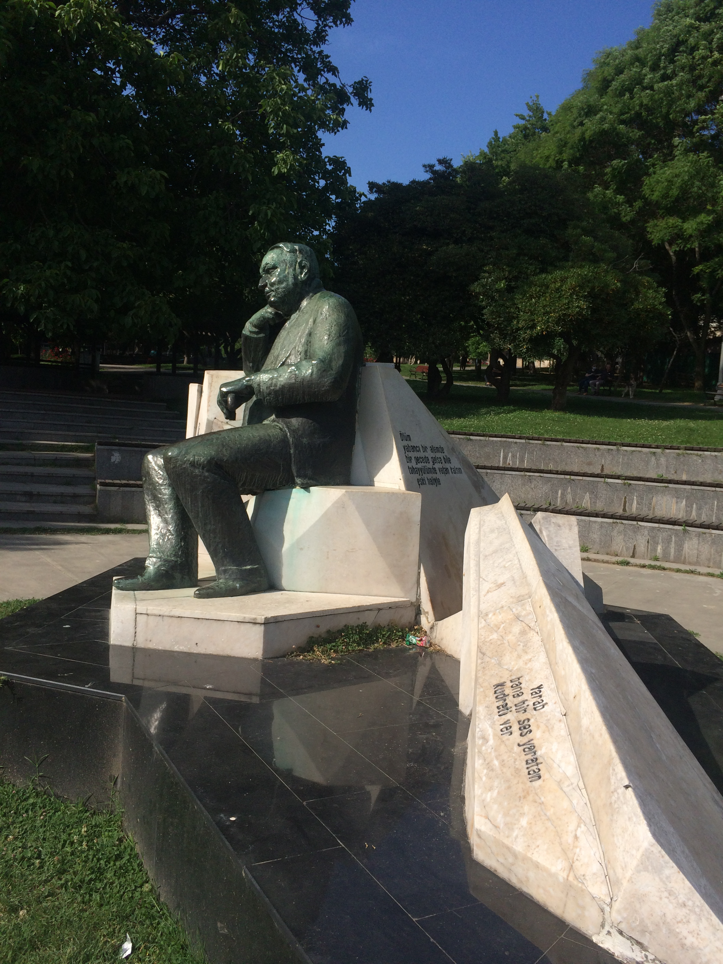 Statue of the poet Yahya Kemal Beyatlı in Beşiktaş's Yahya Kemal Park, made by Hüseyin Gezer in 1968